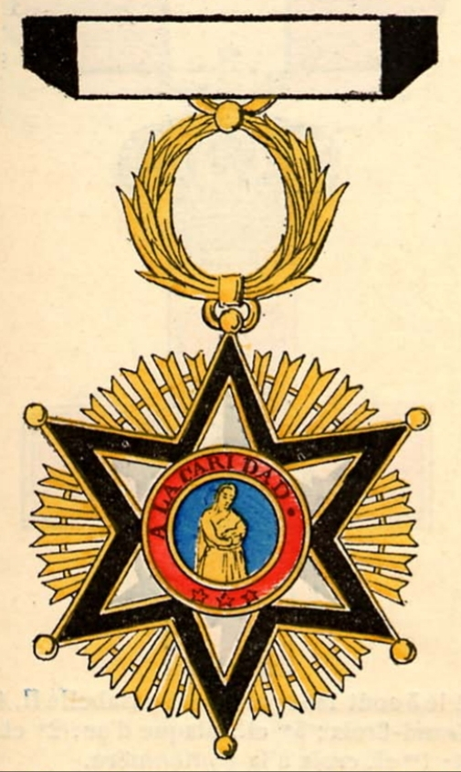 Order of Charity of Kingdom of Spain for woman